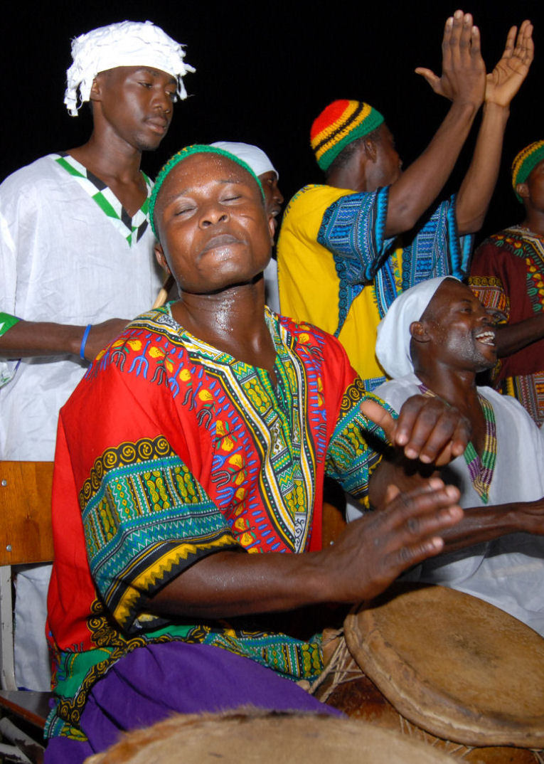 A group of drummers in Accra, Ghana